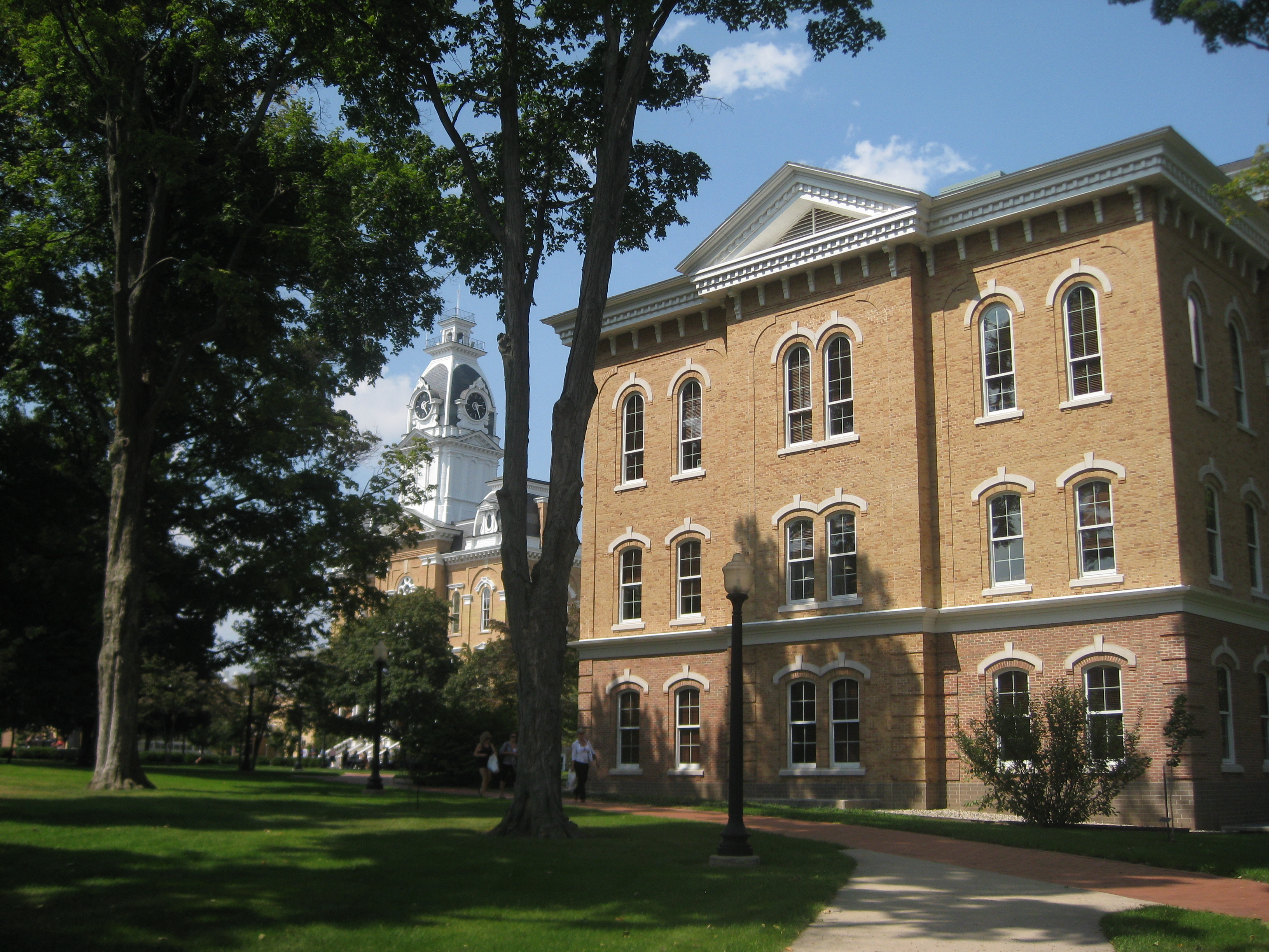 Hillsdale College's Delp Hall, which houses many faculty offices, looking west towards campus.